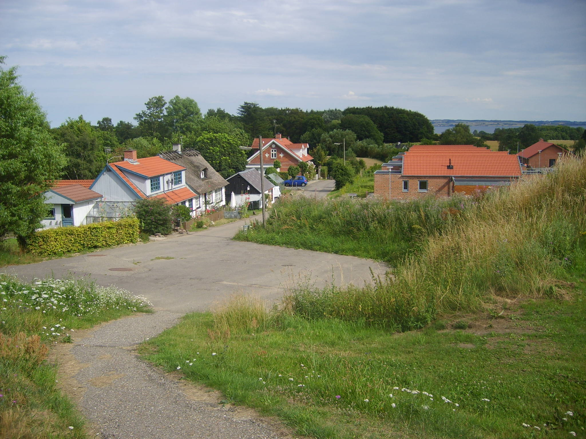 Old houses in Rodskov in Denmark, right below the main road (Landvejen), probably on Lilletoften.